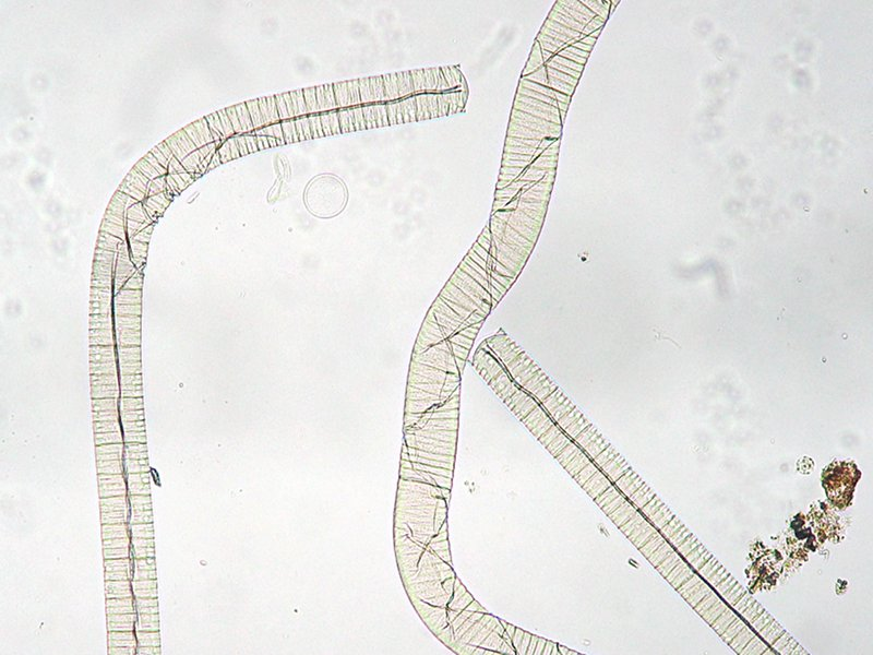 This work is free and may be used by anyone for any purpose. If you wish to use this content, you do not need to request permission as long as you follow any licensing requirements mentioned on this page.